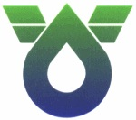 Shioya Yochigi chapter